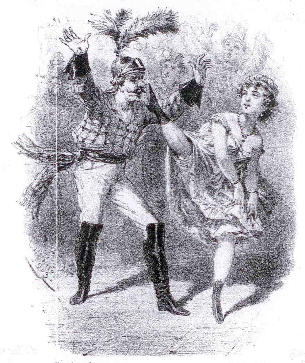 The famous dancer of the Carnival de Paris Leveque called Chicard dances with a Cancan dancer.